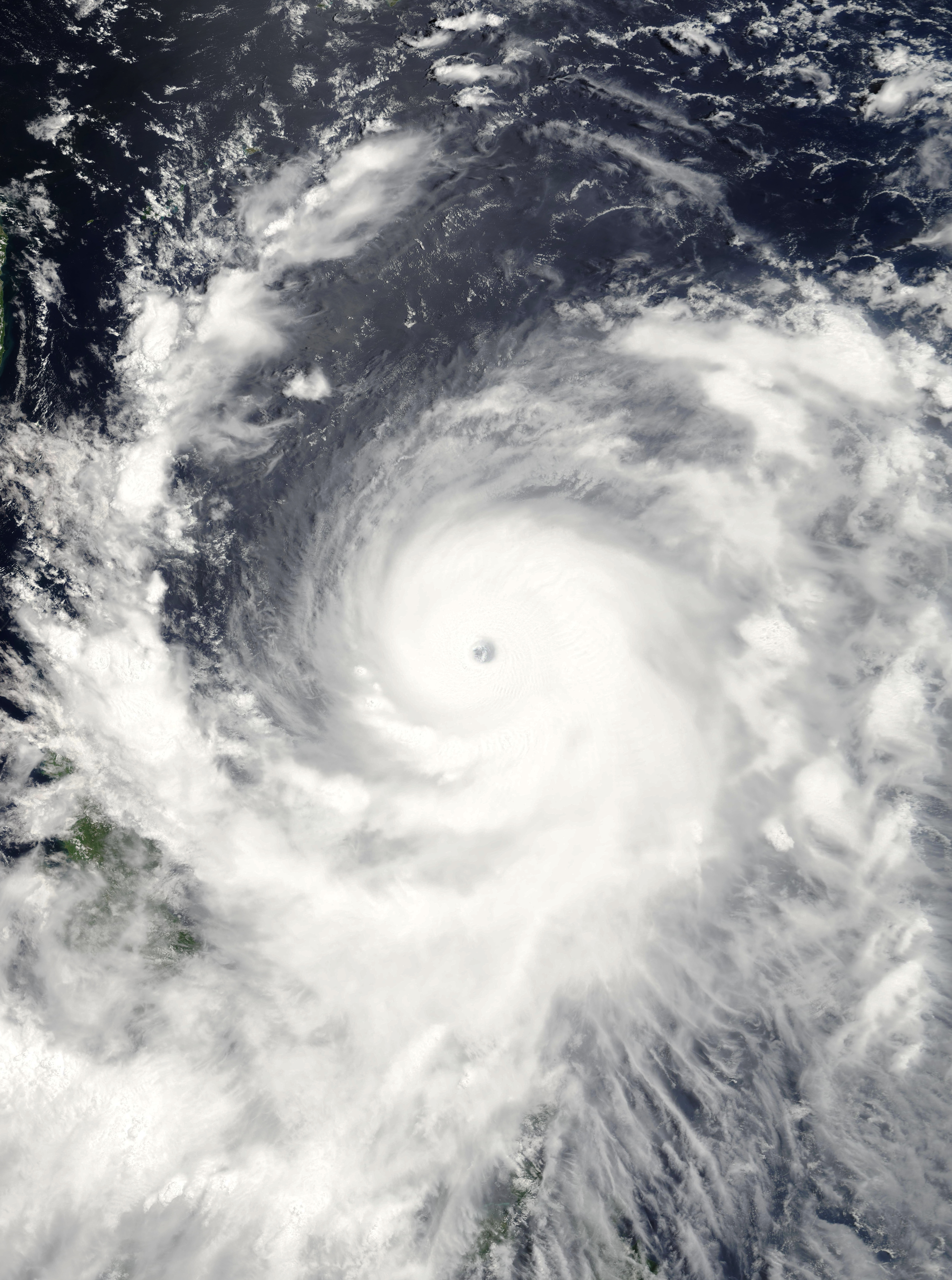 Super Typhoon Sepat came ashore in Taiwan on August 17, 2007, after bringing torrential rain and flooding to the Philippines the day before. Flights to and from Tapei, the island’s capital, were canceled and Chinese authorities were calling all ships at sea to come back to shore in anticipation of the powerful typhoon crossing the Taiwan Strait and coming ashore on the mainland, said news reports. The typhoon was classified as Category Five typhoon, at the very top of the scale, with sustained winds of 184 kilometers per hour (114 miles per hour), according to CNN. At 10:25 a.m. local time (02:25 UTC) on August 16, 2007, when the Moderate Resolution Imaging Spectroradiometer (MODIS) on NASA’s Terra satellite captured this image, Super Typhoon Sepat was still well away from its coming encounter with the Philippines and Taiwan. Winds were measured at a sustained speed as high as 257 km/hr (161 mph) at the time of this image, according to the University of Hawaii’s Tropical Storm Information Center. The storm’s strength is evident in this image from its large size, well-defined spiral structure, and obvious large eye. Some clouds are present in the central eye: a completely clear eye is a tell-tale sign of the most powerful storms, though some clouds can be present in the eye of a powerful storm as is the case here.